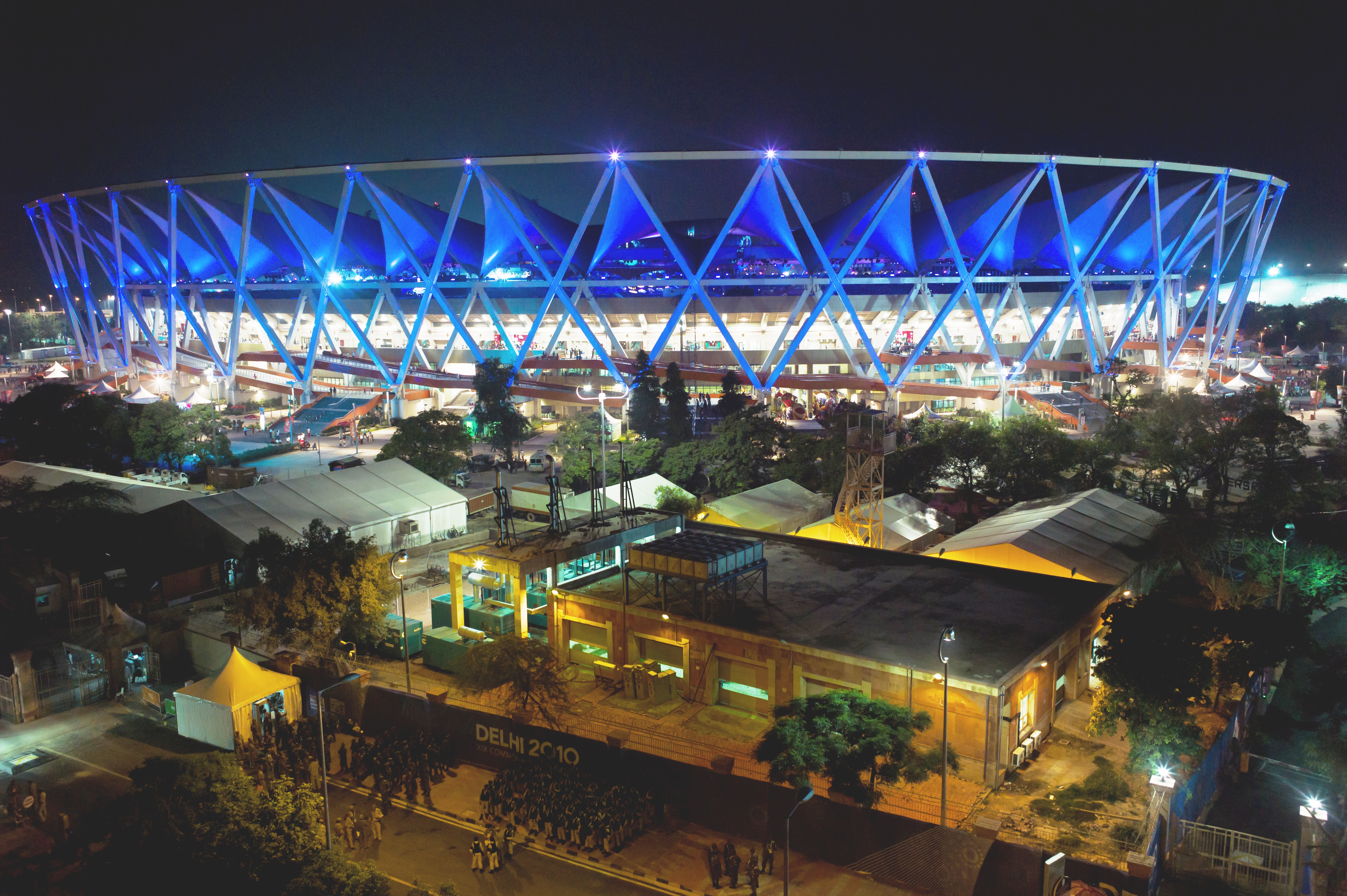 The Jawaharlal Nehru Stadium, the main stadium for the Delhi Commonwealth Games 2010. Photo was taken on the night of the opening ceremony; security forces can be seen in the foreground.